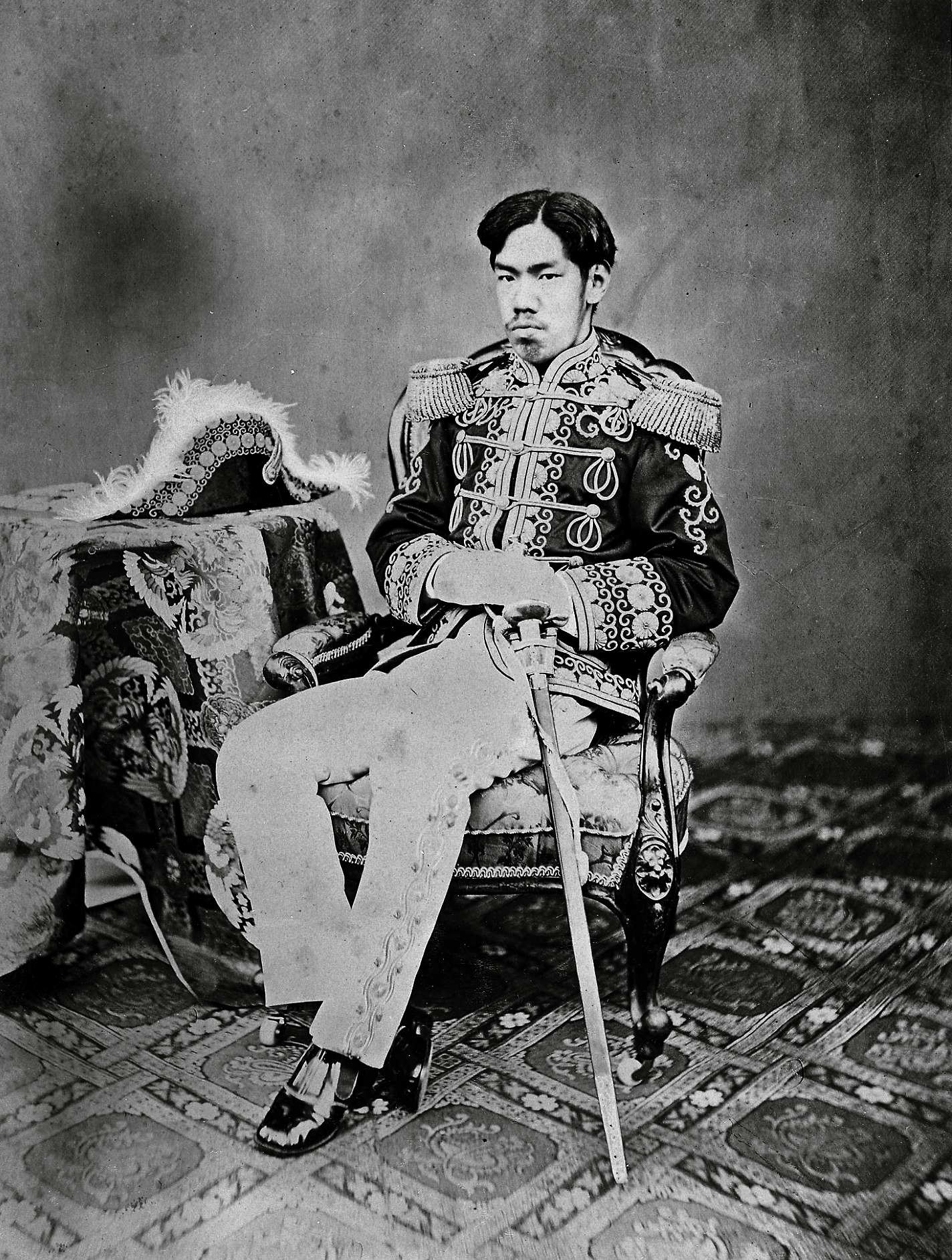 Portrait of the Emperor Meiji. Albumen silver print. Uchida Kuichi was the only photographer granted a sitting by the Emperor Meiji and in 1872 Uchida photographed the Emperor and Empress Haruko in full court dress and everyday robes. In 1873, Uchida again photographed the Emperor, who this time wore military dress, and a photograph from this sitting became the official imperial portrait (Ishii and Iizawa). Copies of the official portrait were distributed among foreign heads of state and Japanese regional governmental offices, but their private sale was prohibited. Nevertheless, many copies of the photograph were made and circulated on the market.